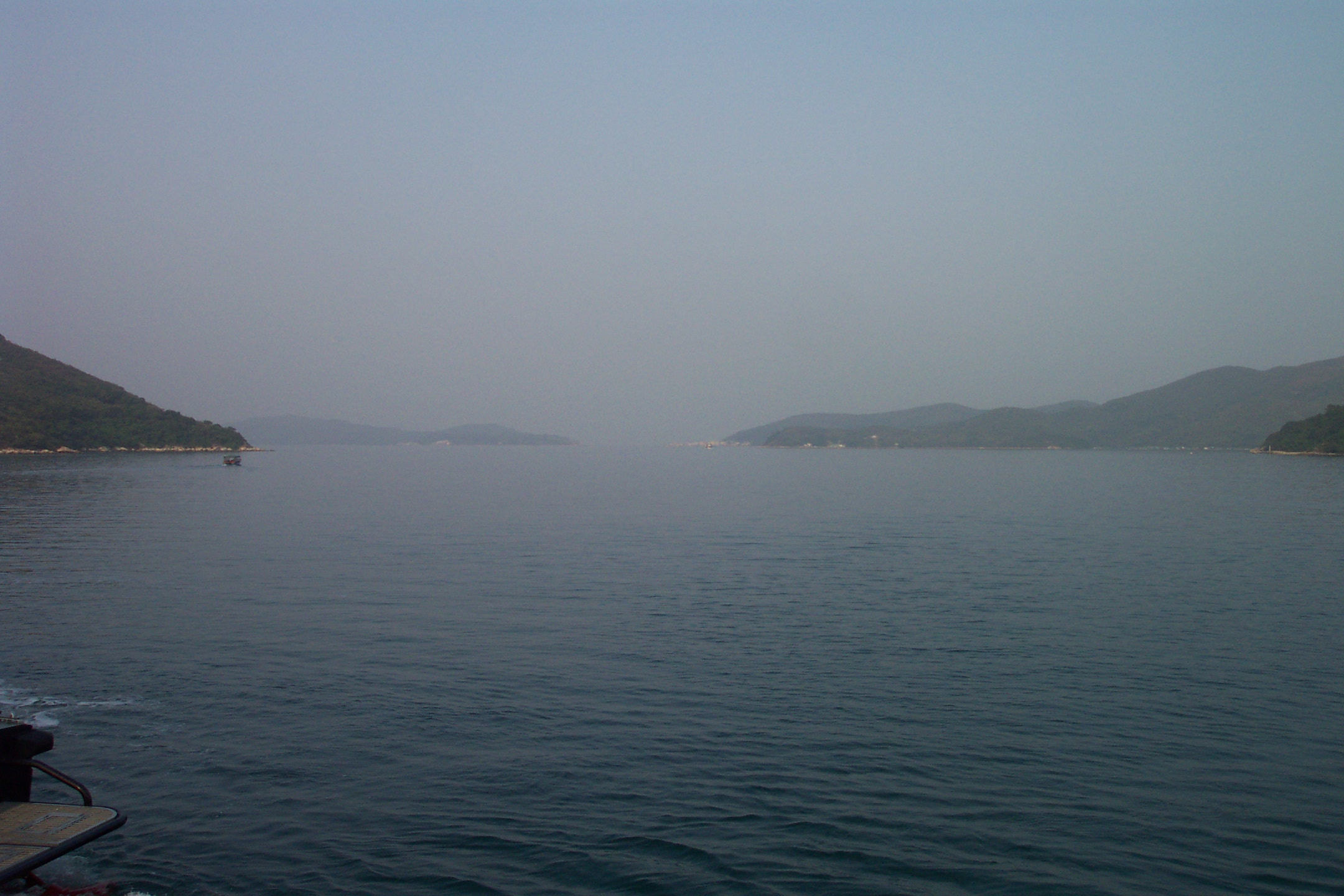 Long Harbour in Hong Kong's north-eastern New Territories, seen from Wong Shek Pier on the Sai Kung Peninsular. For more information, see Wikipedia articles Long Harbour (Hong Kong) and Wong Shek Pier.